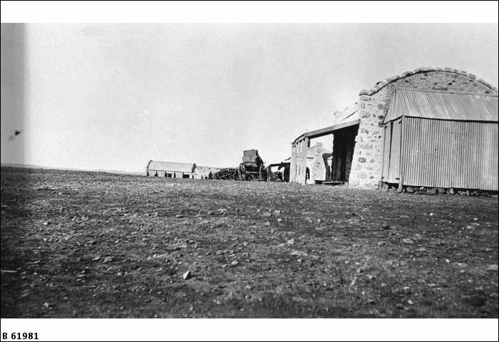 Farm buildings at Cordillo Downs The woolshed and store at Cordillo Downs ca.1926